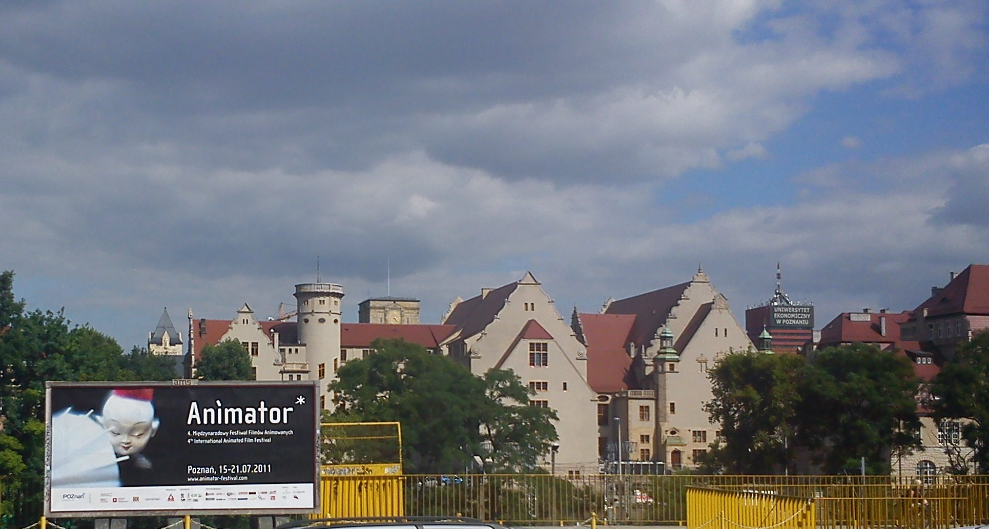 Poznan, Collegium Mianus, Animator Festival.